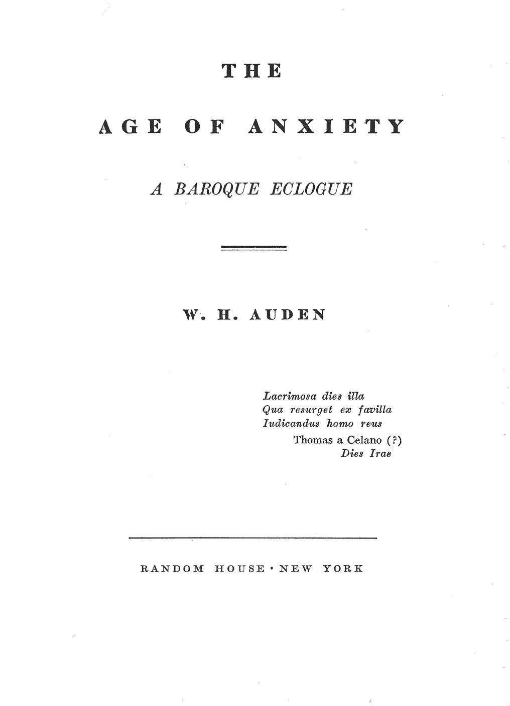 Title page of W. H. Auden, The Age of Anxiety, 1947 (non-copyrightable title page)